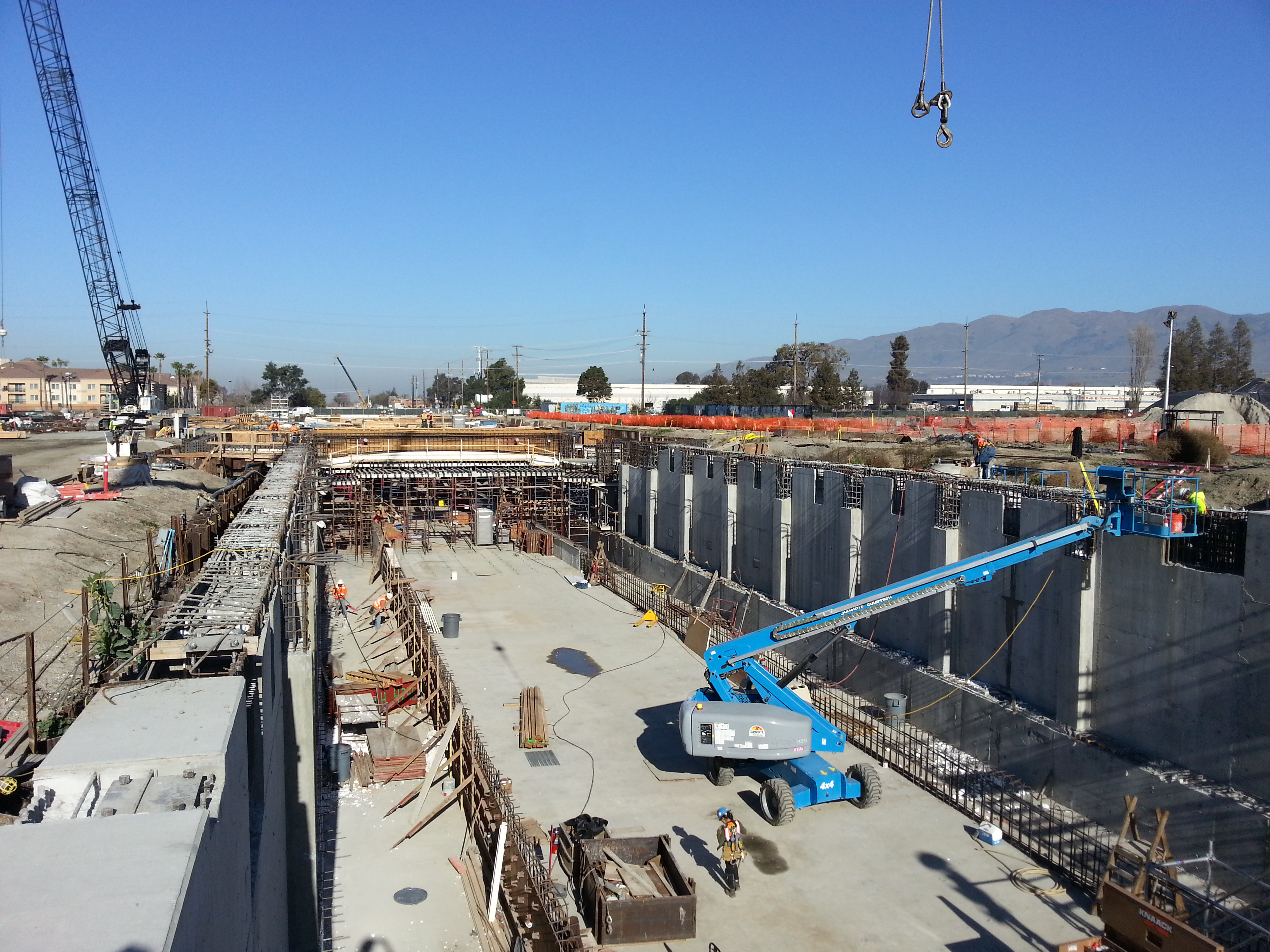 View of construction at the future Milpitas BART station, part of the Silicon Valley BART Extension (Phase 1).